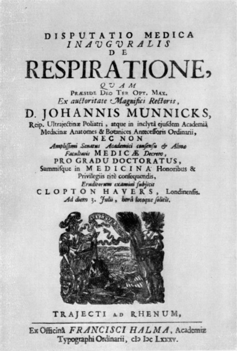 The cover of Clopton Havers dissertation "De Respiratione"